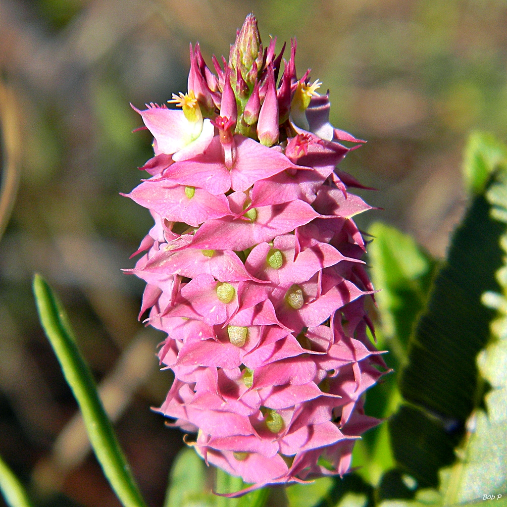 Here is another Polygala species that is currently blooming in the wet pine flatwoods. Polygala cruciata is pollinated by tiny insects. Jonathan Dickinson State Park, Martin County, Florida.